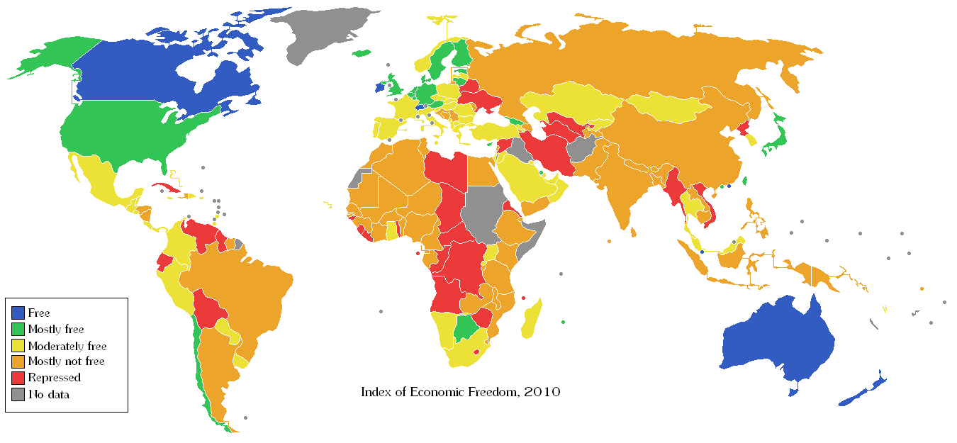 The 2010 Heritage Foundation Index of Economic Freedom.